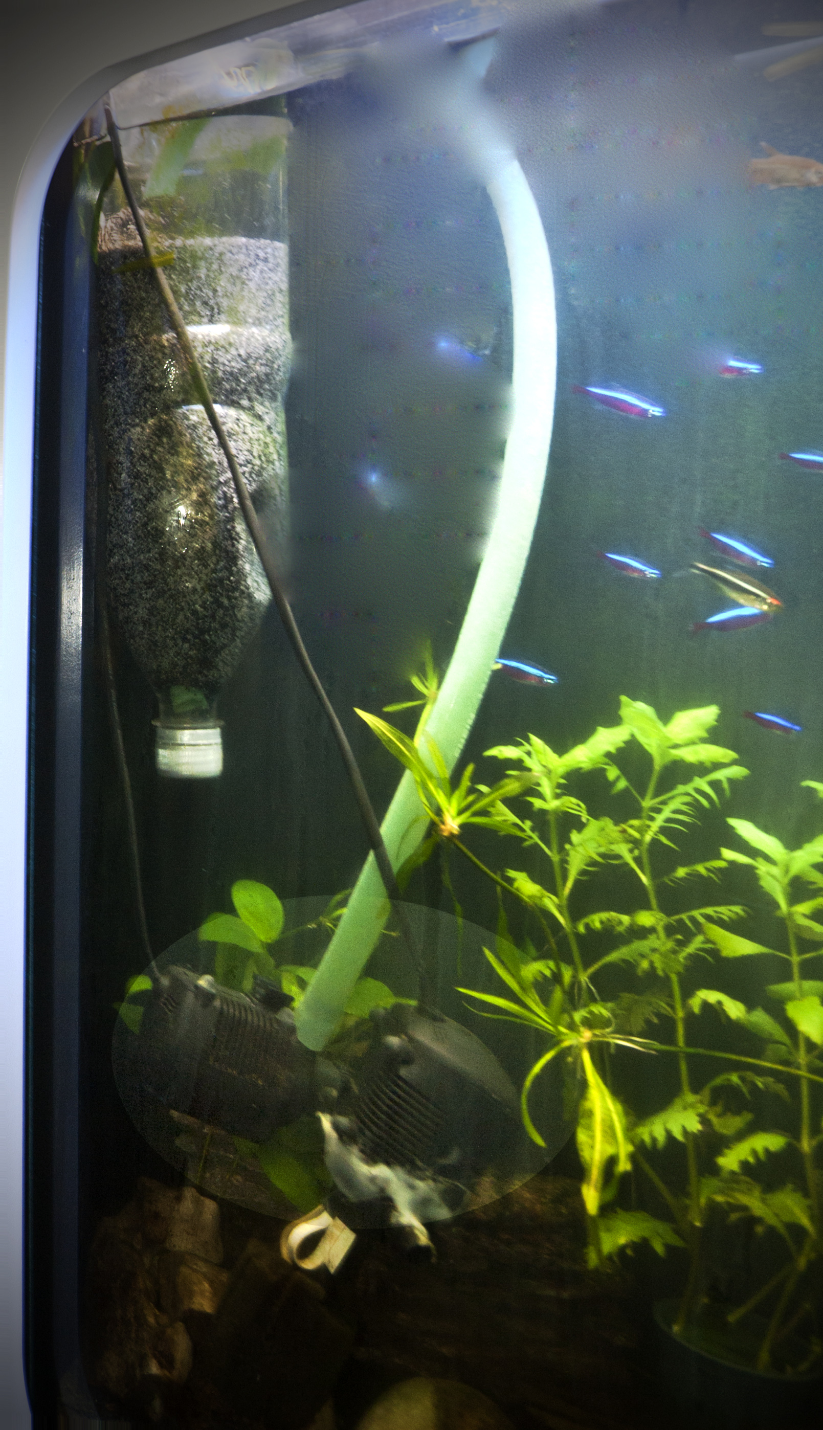 Fluidized sandbed filter, simple DIY